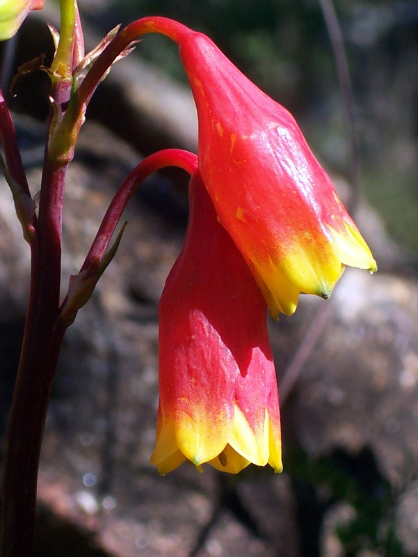 Blandfordia nobilis, Berowra Valley Regional Park